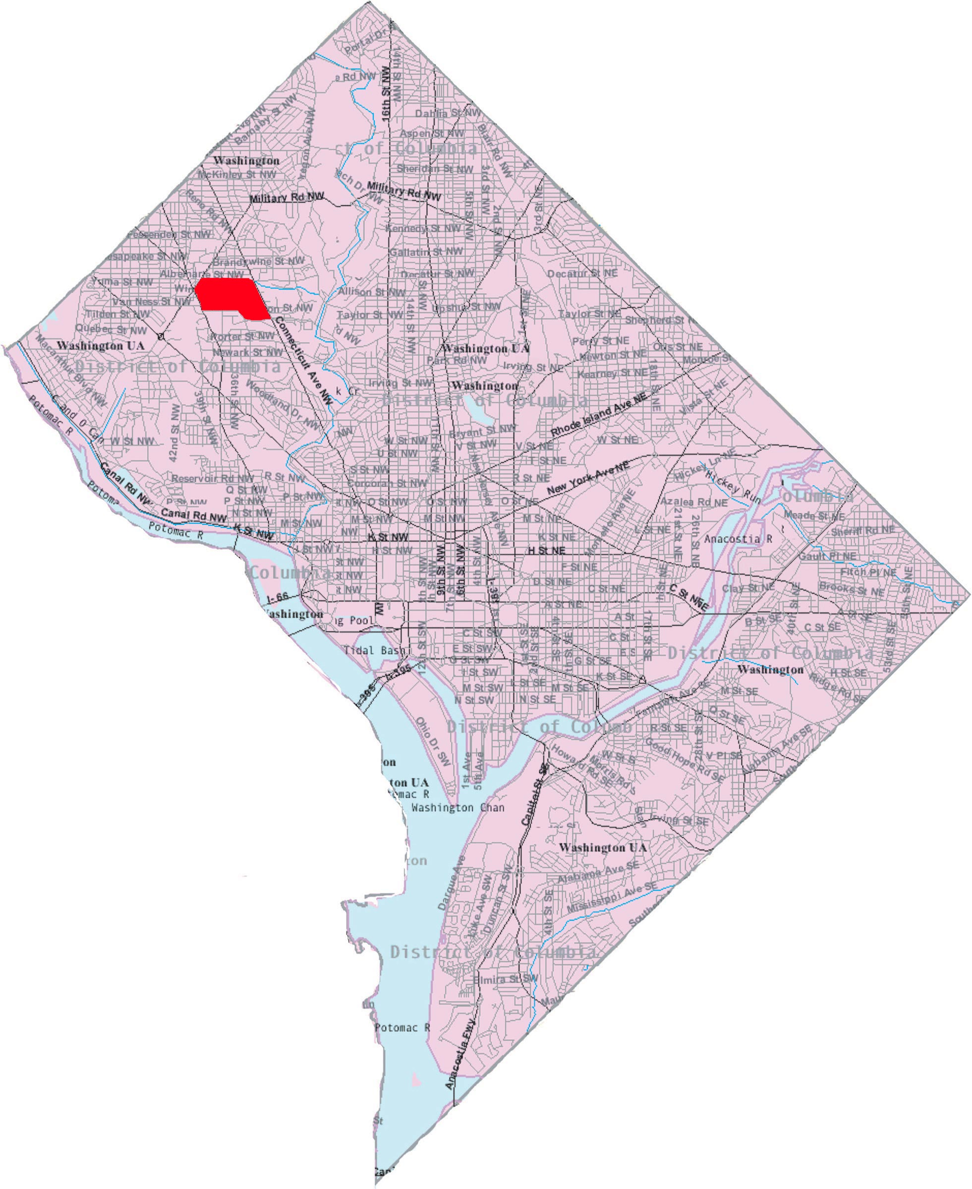 This image is a modified version of a self-generated reference map from the U.S. Census Bureau's American Factfinder at by Wikipedia user Msclguru.